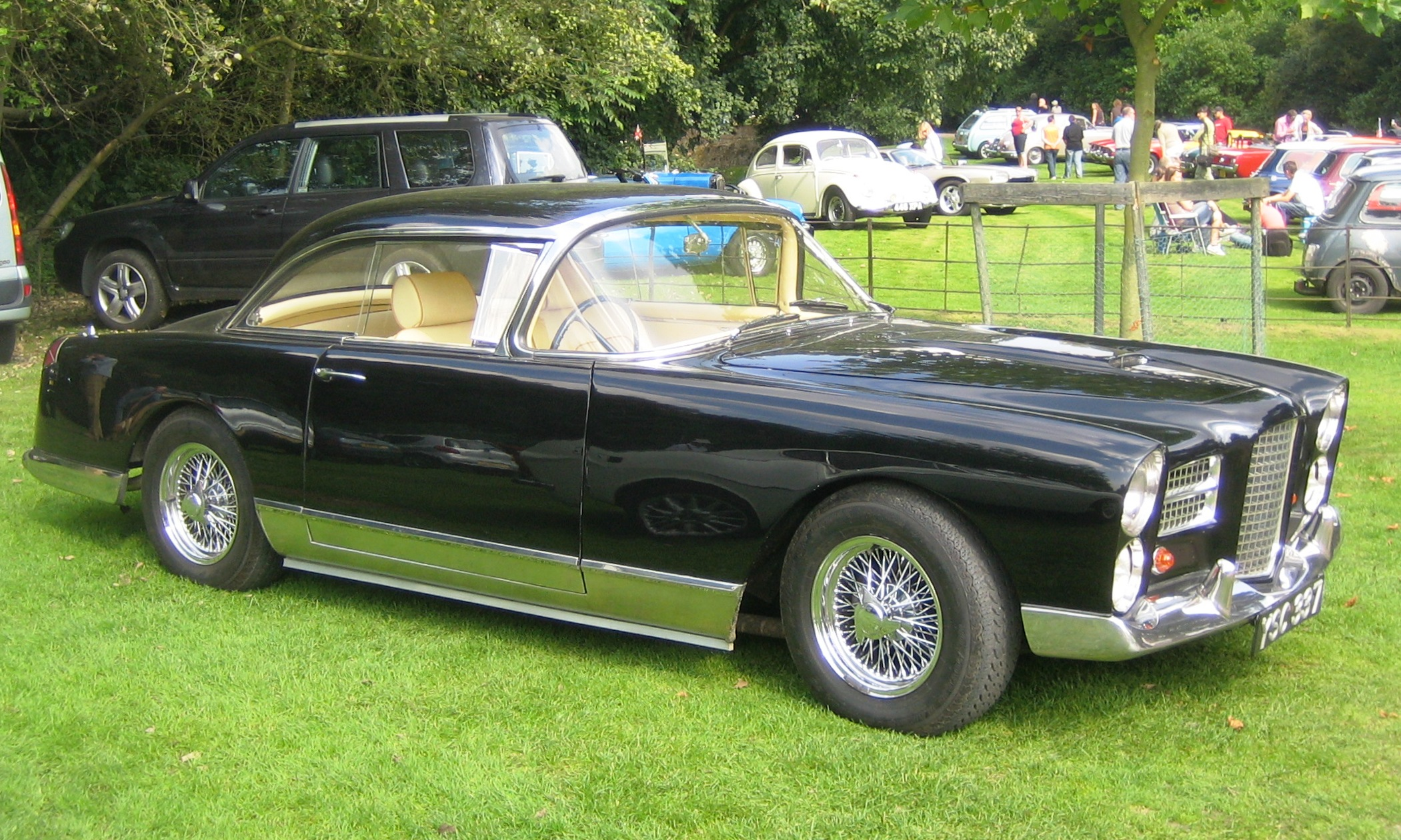 1961 Facel Vega FVII (HK-500) in North Essex